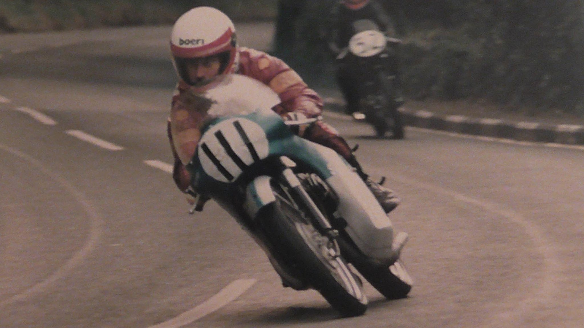 Colin Hardman approaches Braddan Bridge